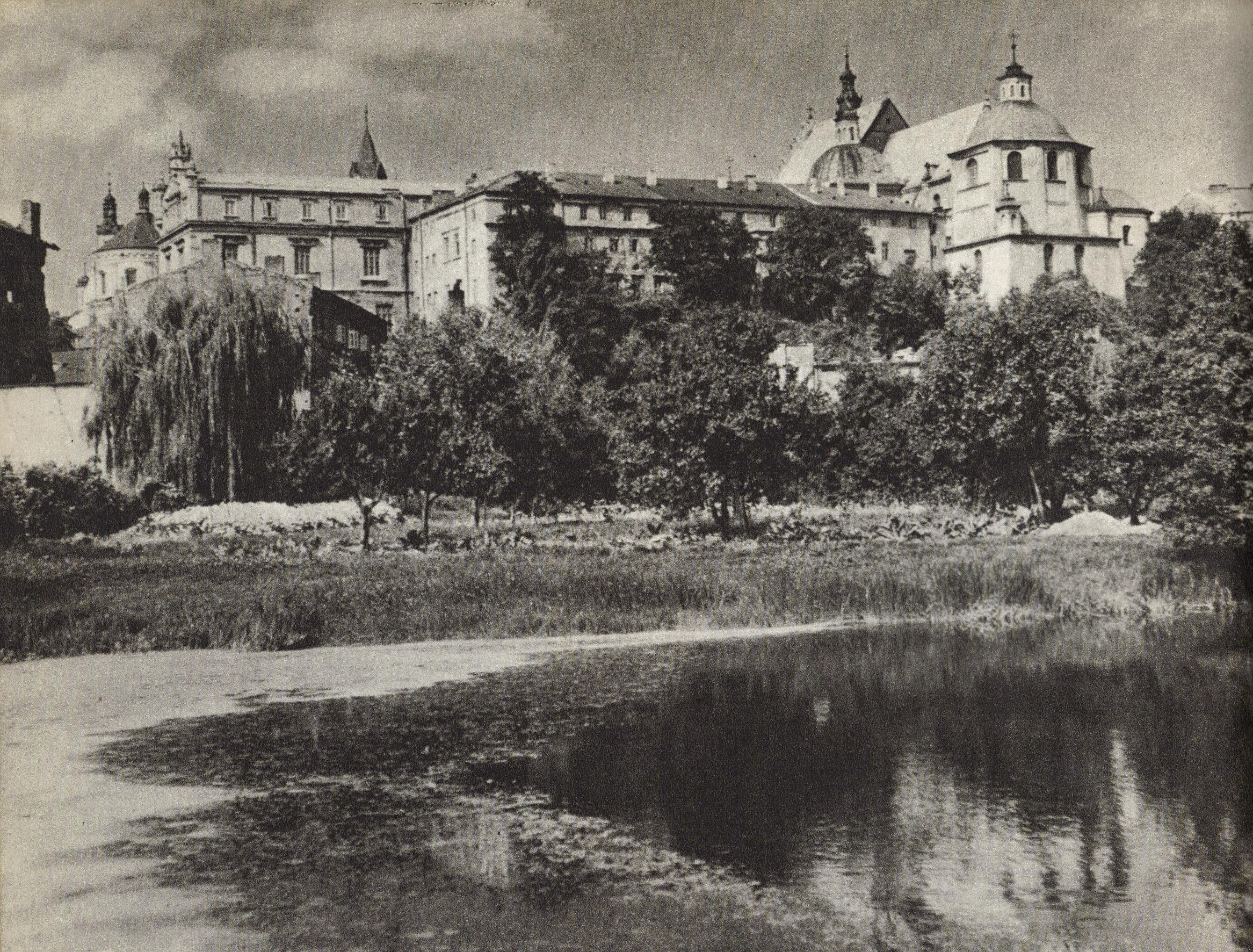 Dominican church and monastery in Lublin in 1964